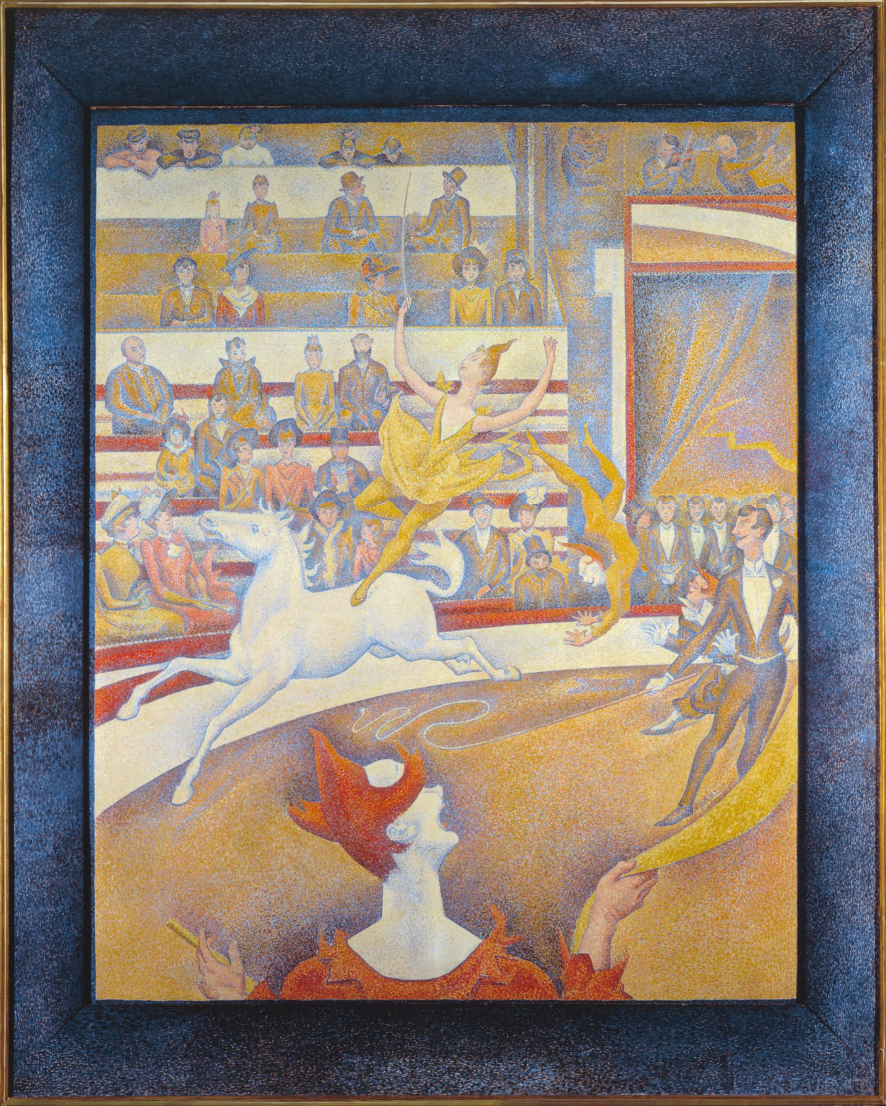 This image of Le Cirque (The Circus) includes frame painted by Seurat